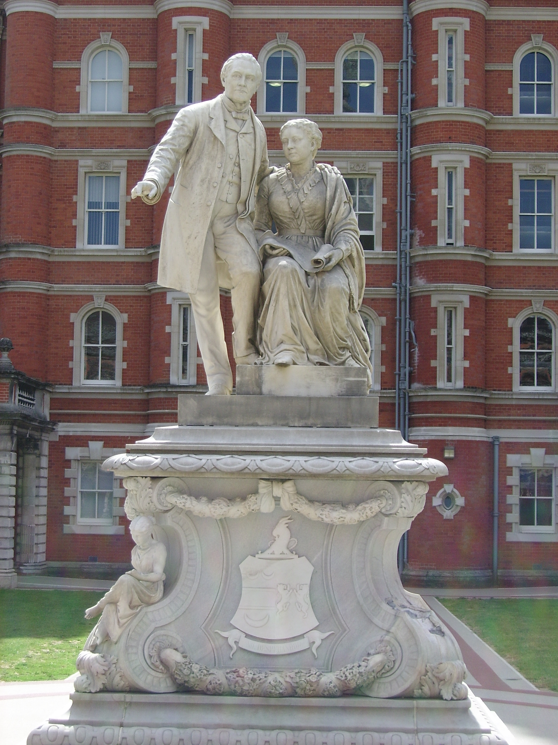 Royal Holloway College Statue In South Quadrangle Wikidata has entry Q26280087 with data related to this item.